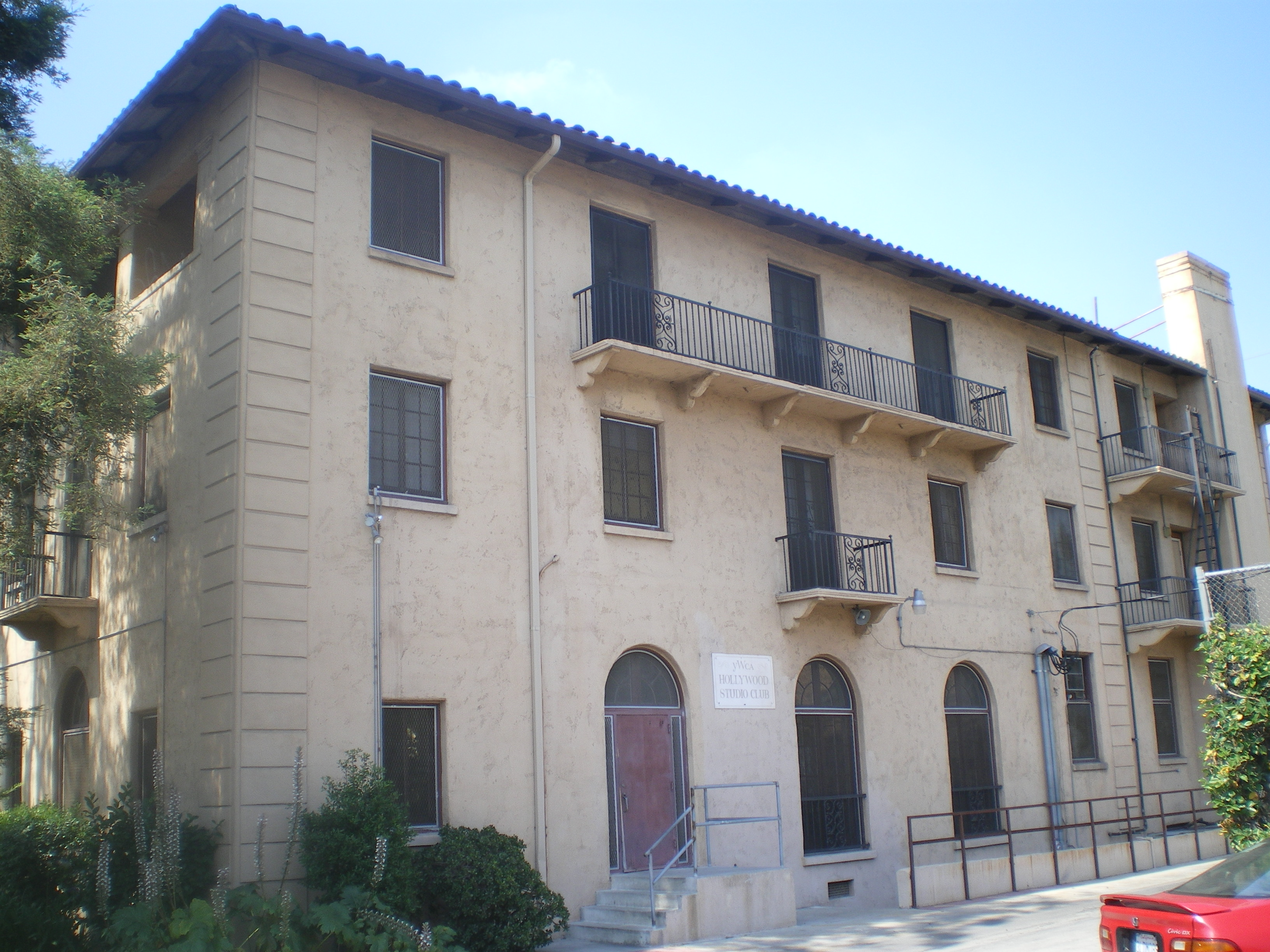 Hollywood Studio Club, North Wing, Lodi Place, Hollywood, California